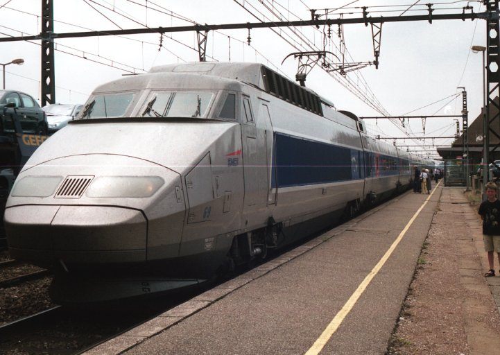 TGV-train